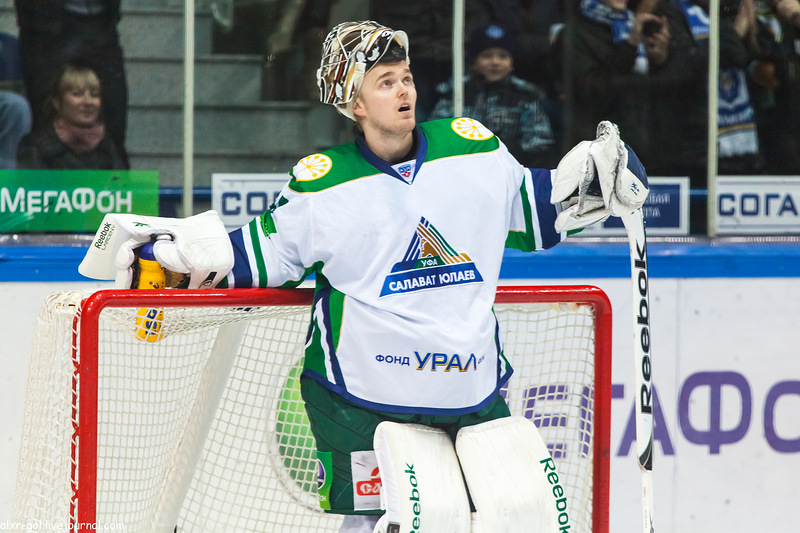 HC Salavat Yulaev Ufa goalie Iiro Tarkki during KHL game against Amur Khabarovsk on October 23, 2012.